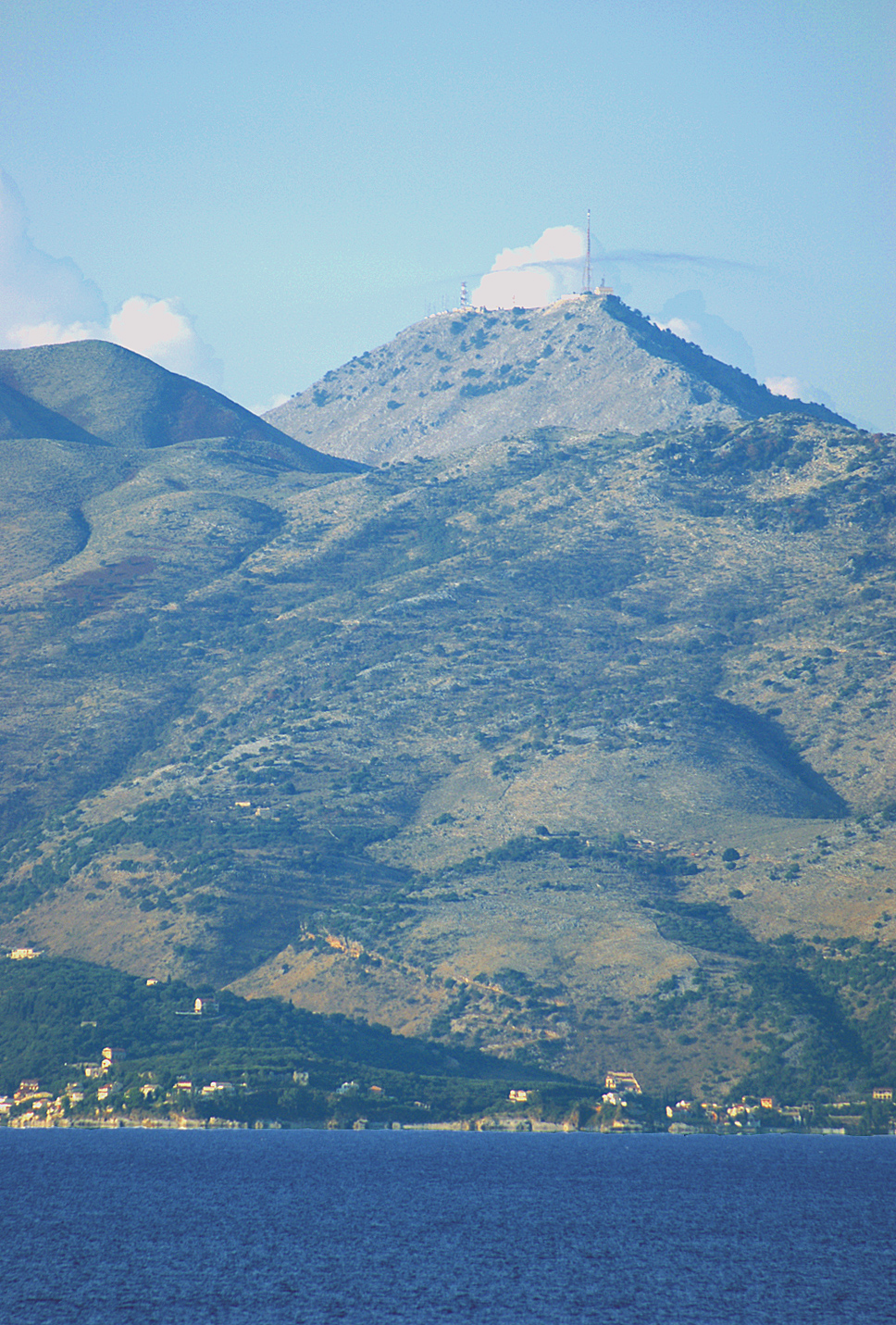 Mount Pantokrator on Corfu as seen from Albania